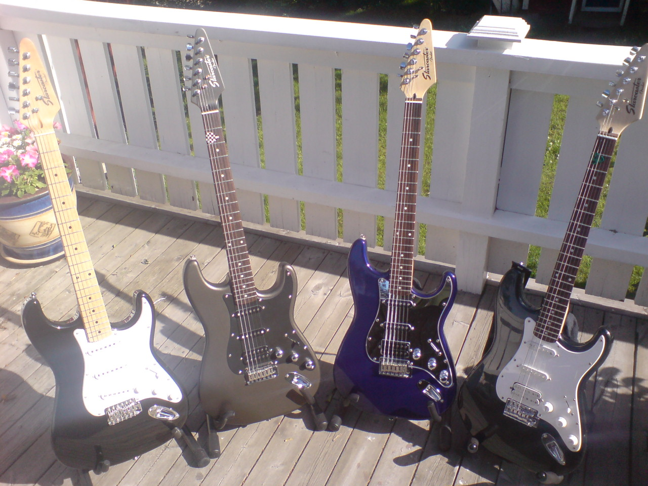 The early arrow headed starcaster model.